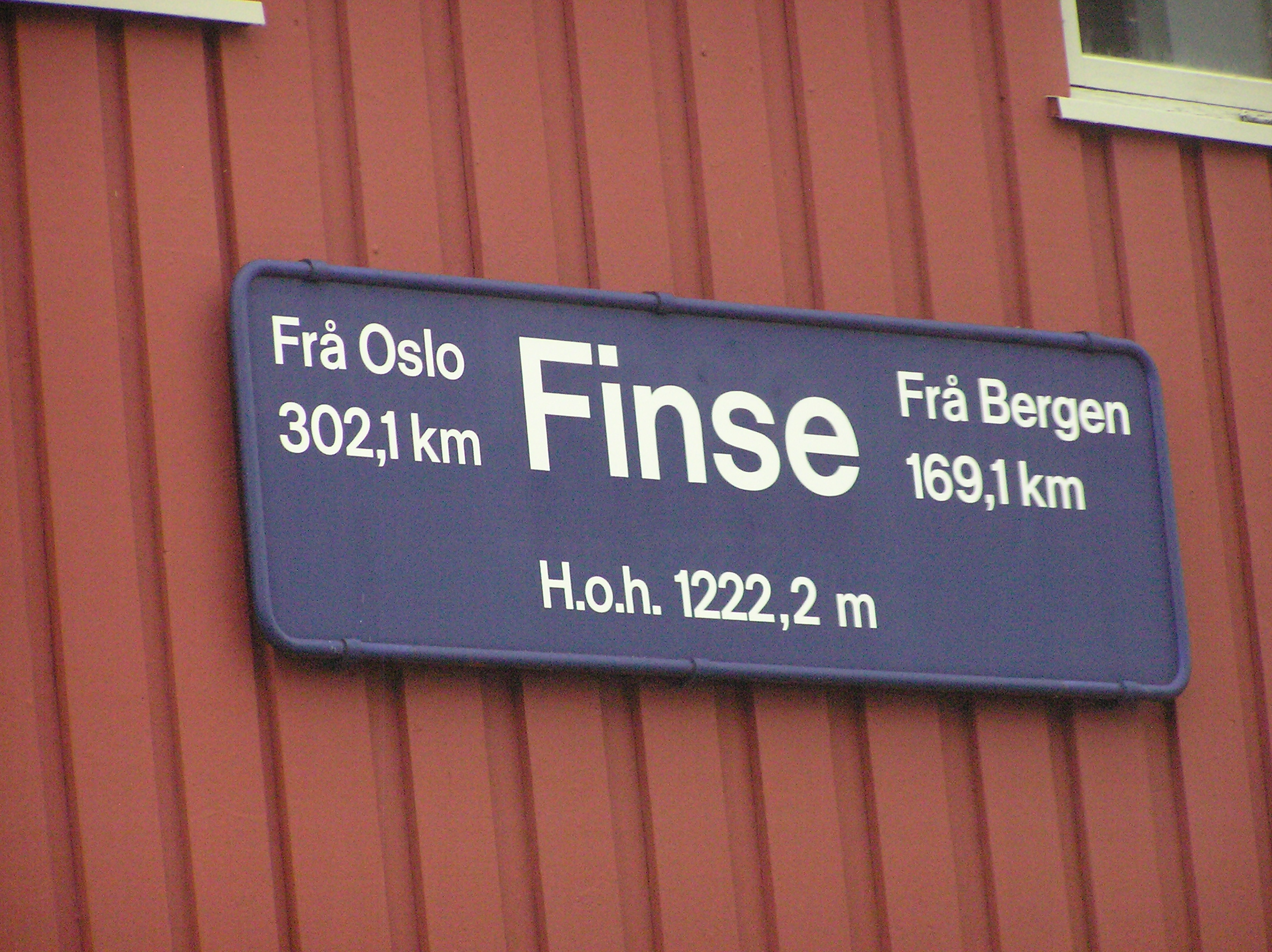 Sign on Finse-Railroadstation